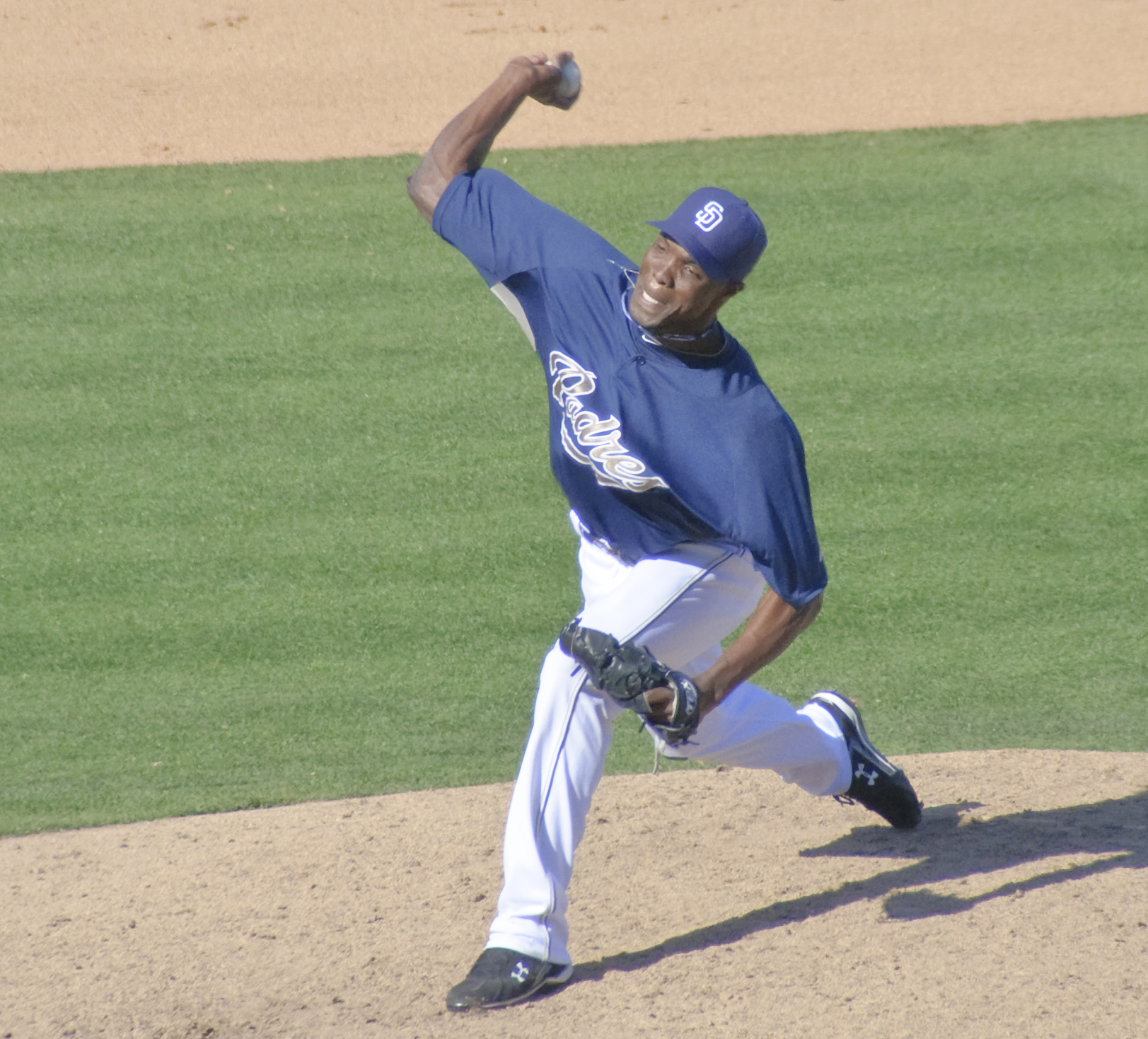 Radhames Liz in 2010 spring training.